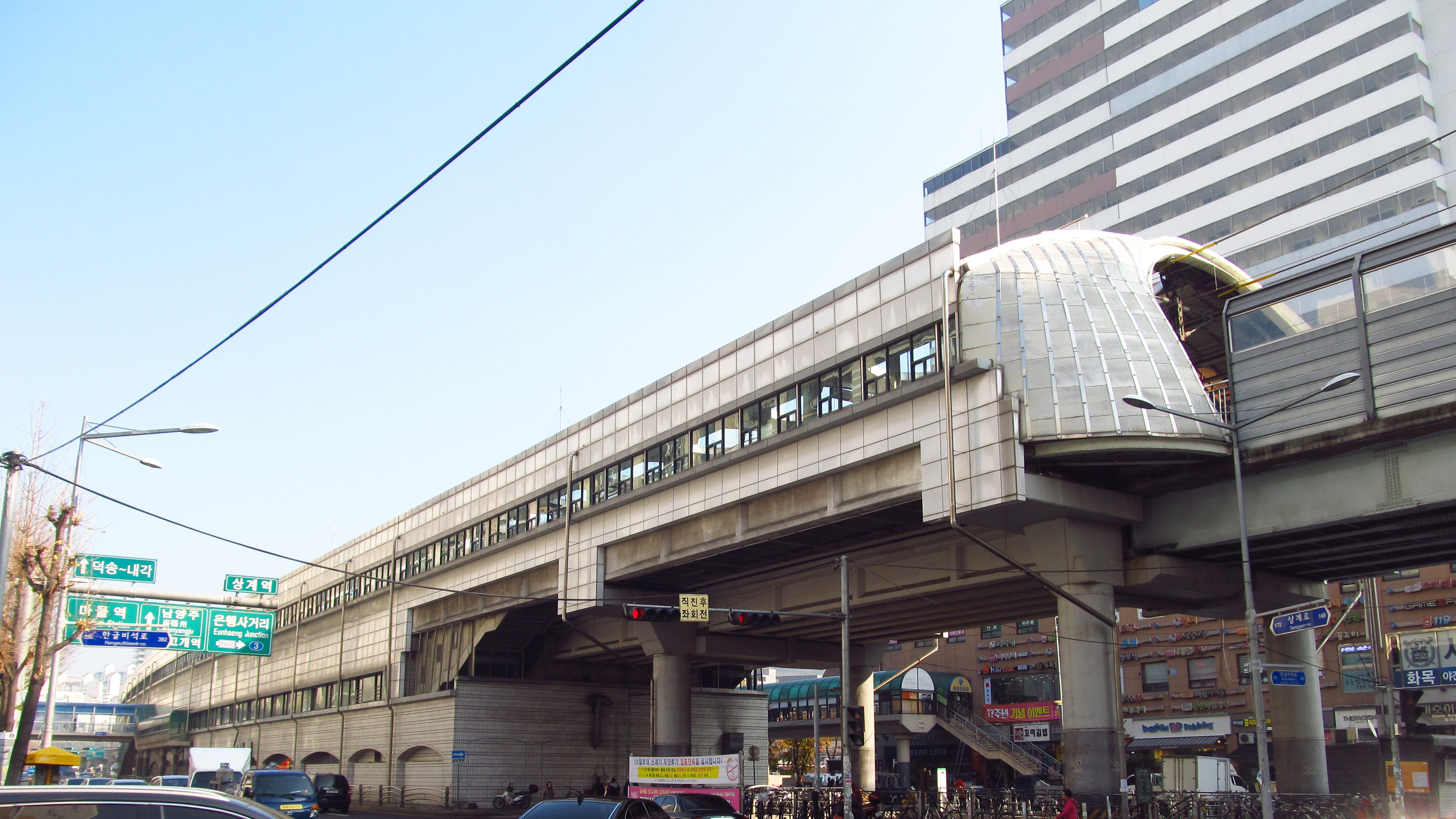 The building of Sanggye Station on Seoul Subway Line 4 in Nowon-gu, Seoul, Republic of Korea(South Korea)